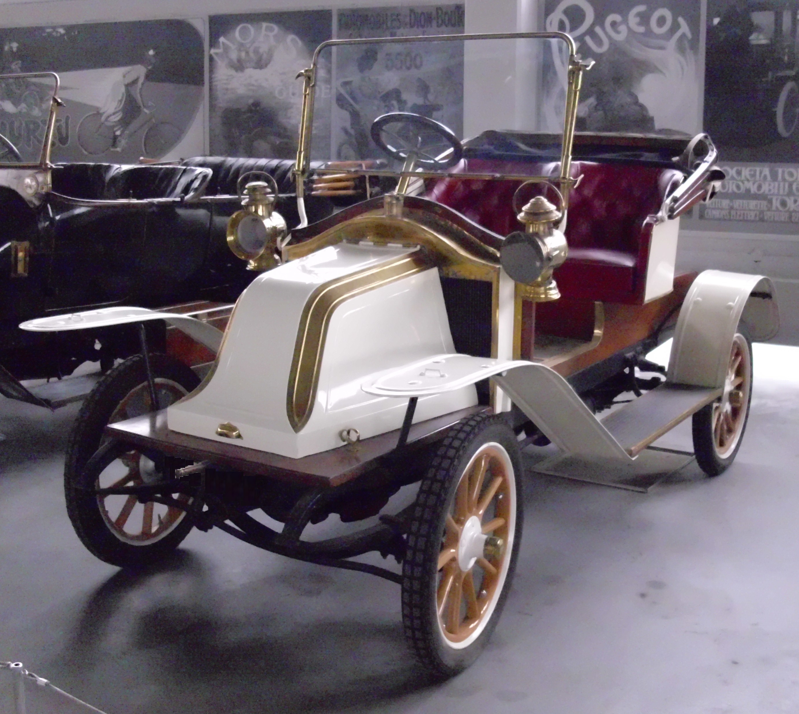 Renault Type AG-1 Phaeton 1910 (Country of origin: France)